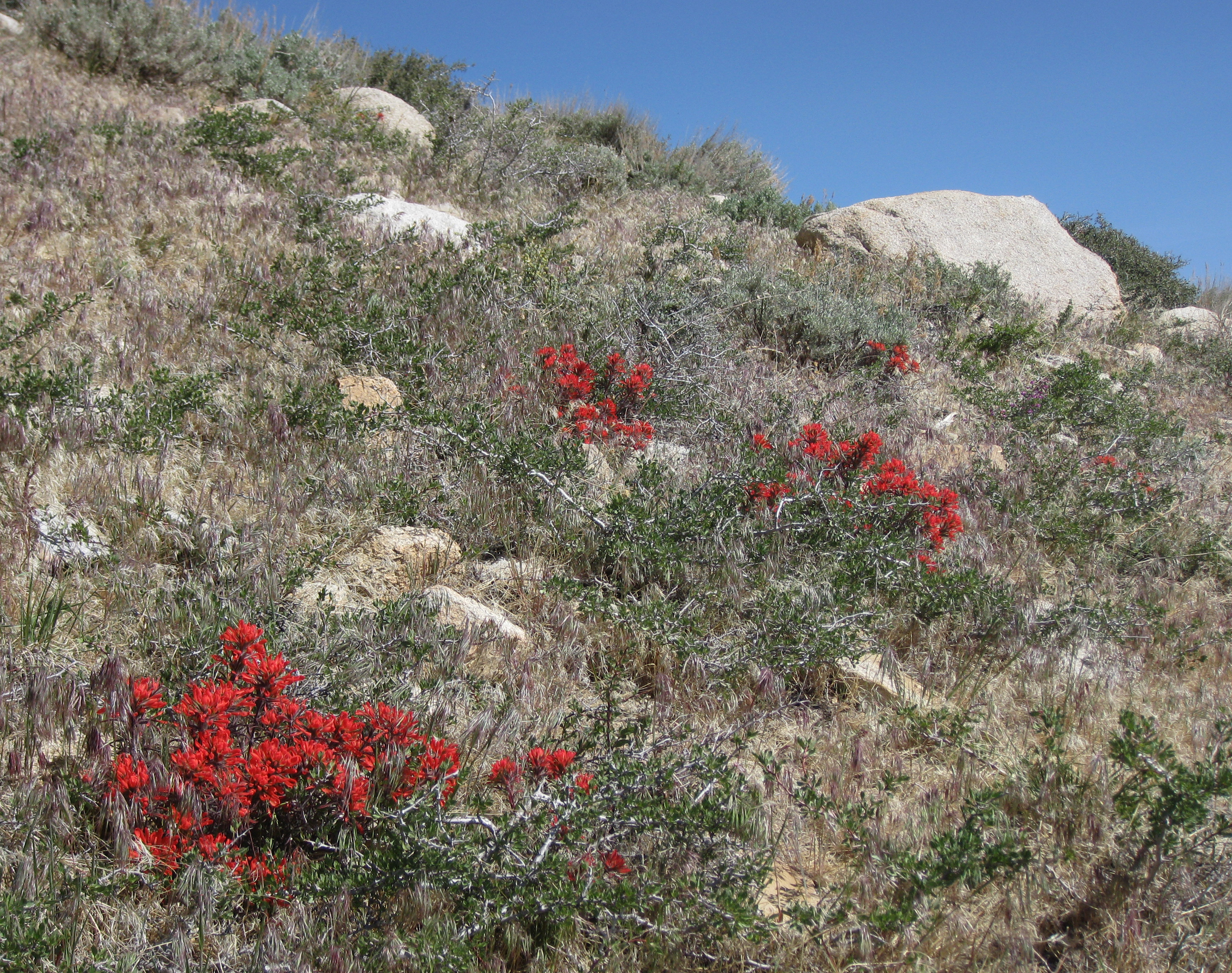 Castilleja chromosa — Desert paintbrush, clumps of brilliant red flowers. On dry slope at 7000 ft in the Eastern Sierra Nevada, in Mono County, California.